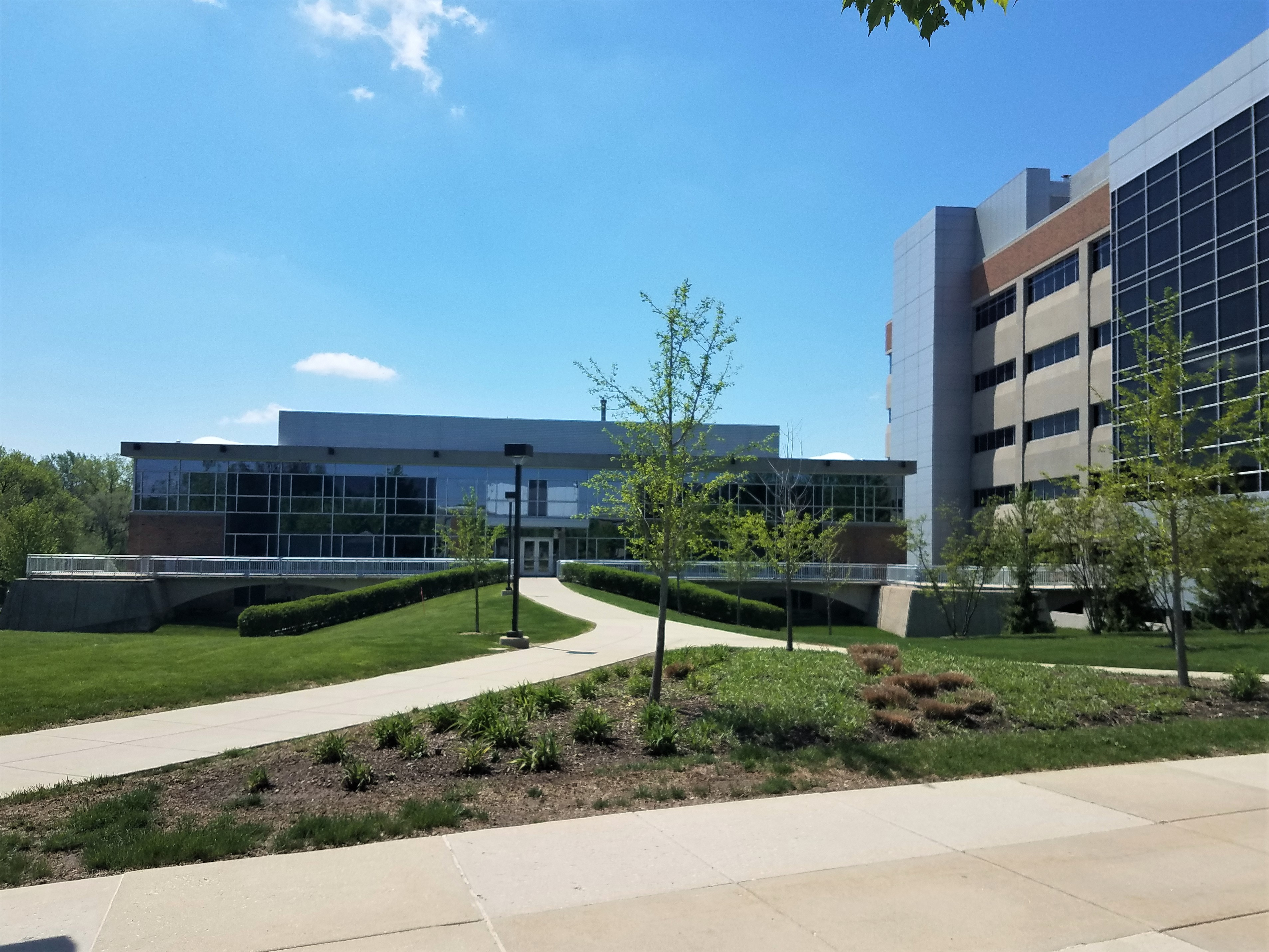 Centennial Hall (left) and Science Hall (right) on the Downers Grove campus of Midwestern University.